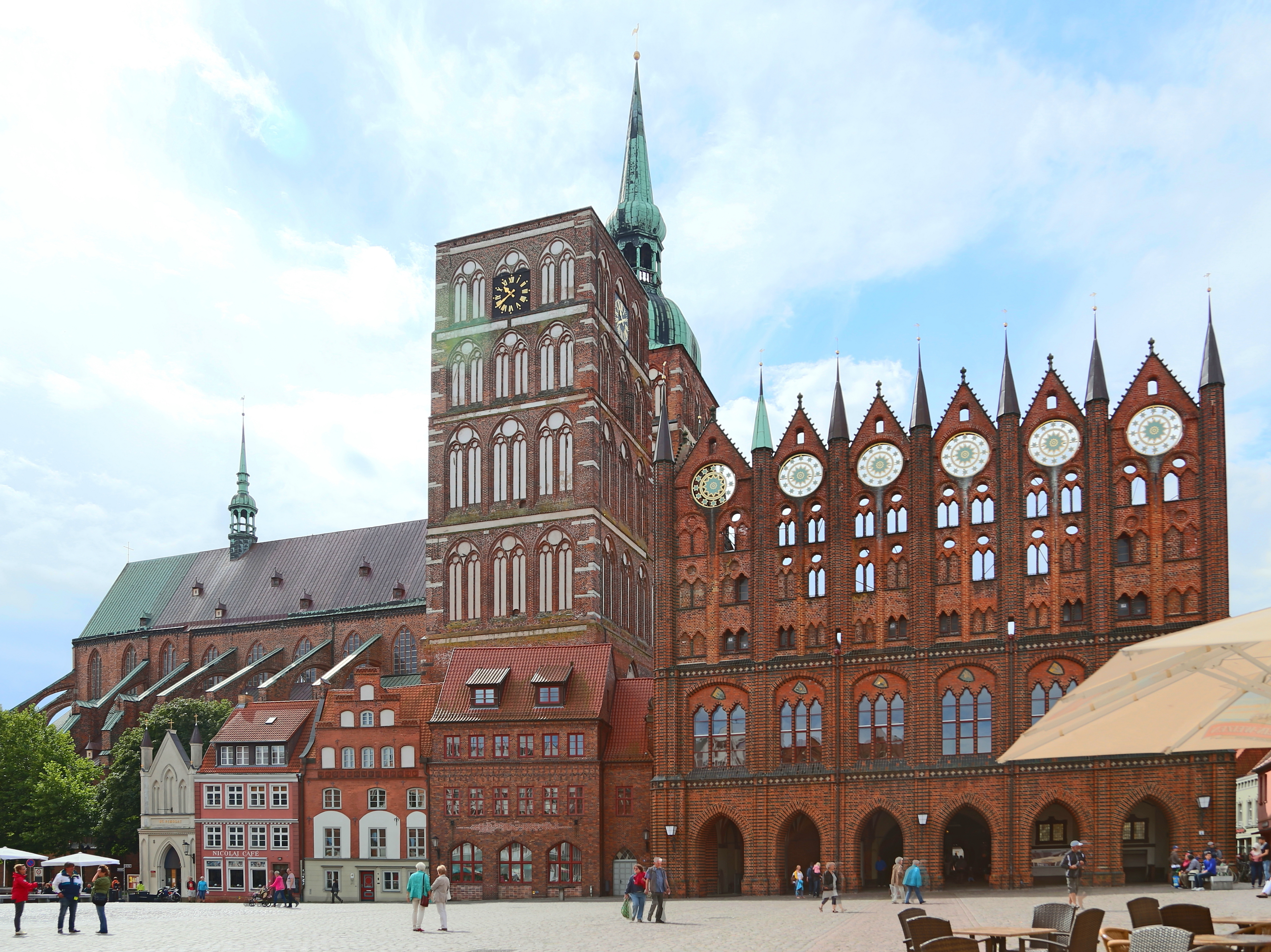 The Old Market Square (Alter Markt) with Town Hall and Saint Nicholas Church in Stralsund, Landkreis Vorpommern-Rügen, Mecklenburg-Vorpommern, Germany.